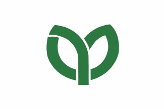 Flag of Rifu Miyagi